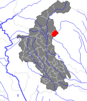 This map shows the area of the Gemeinde (municipality) Miesenbach bei Birkfeld in the Bezirk (district) Weiz, Styria, Austria.